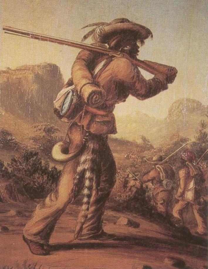 Mfengu (Fingo) gunmen on the Cape frontier. Image of a painting from the mid 1800s.